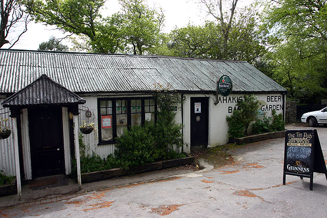 The Tin Pub. Ahakista